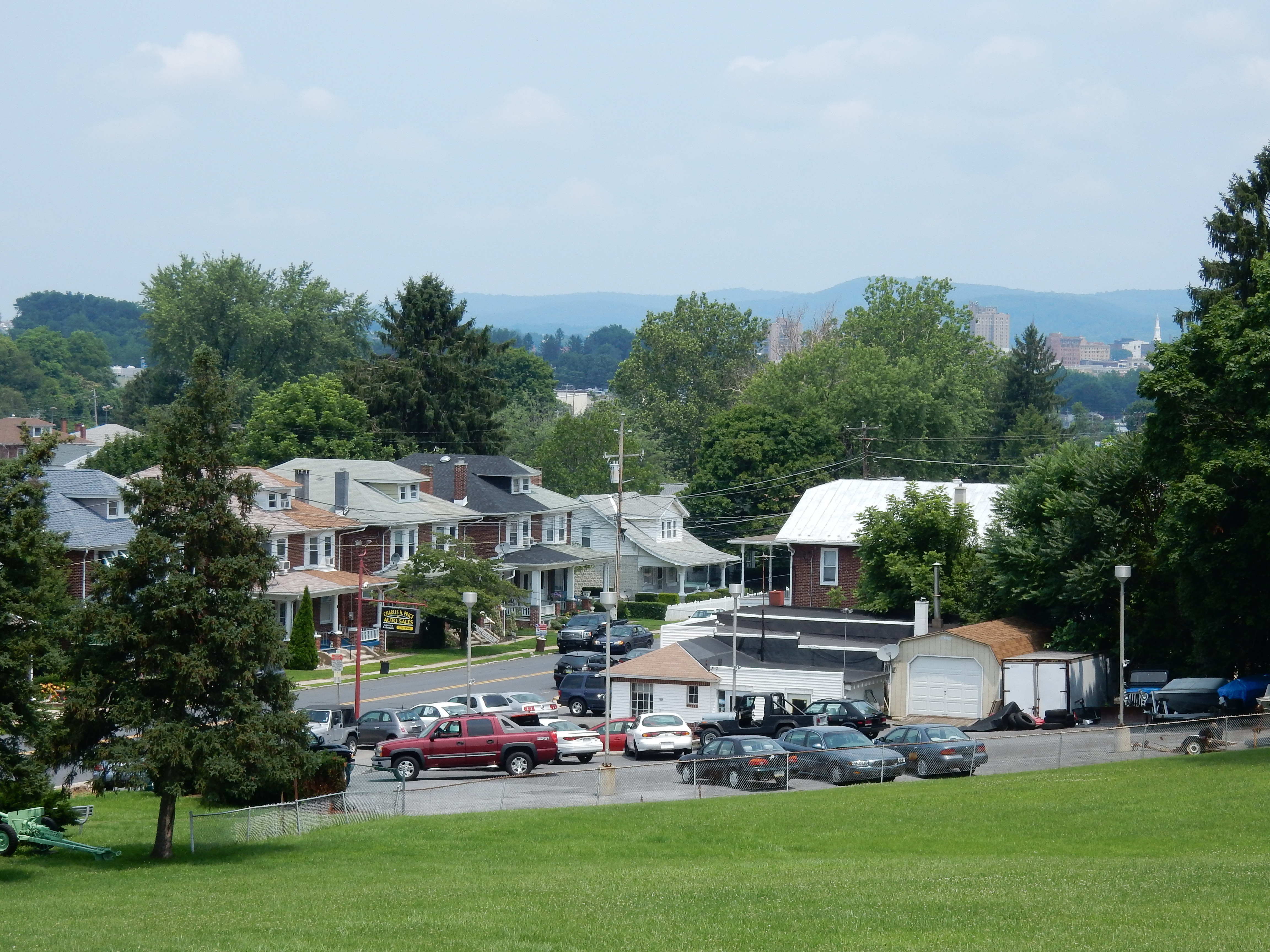 View on New Holland Rd., Kenhorst, Berks county, PA.